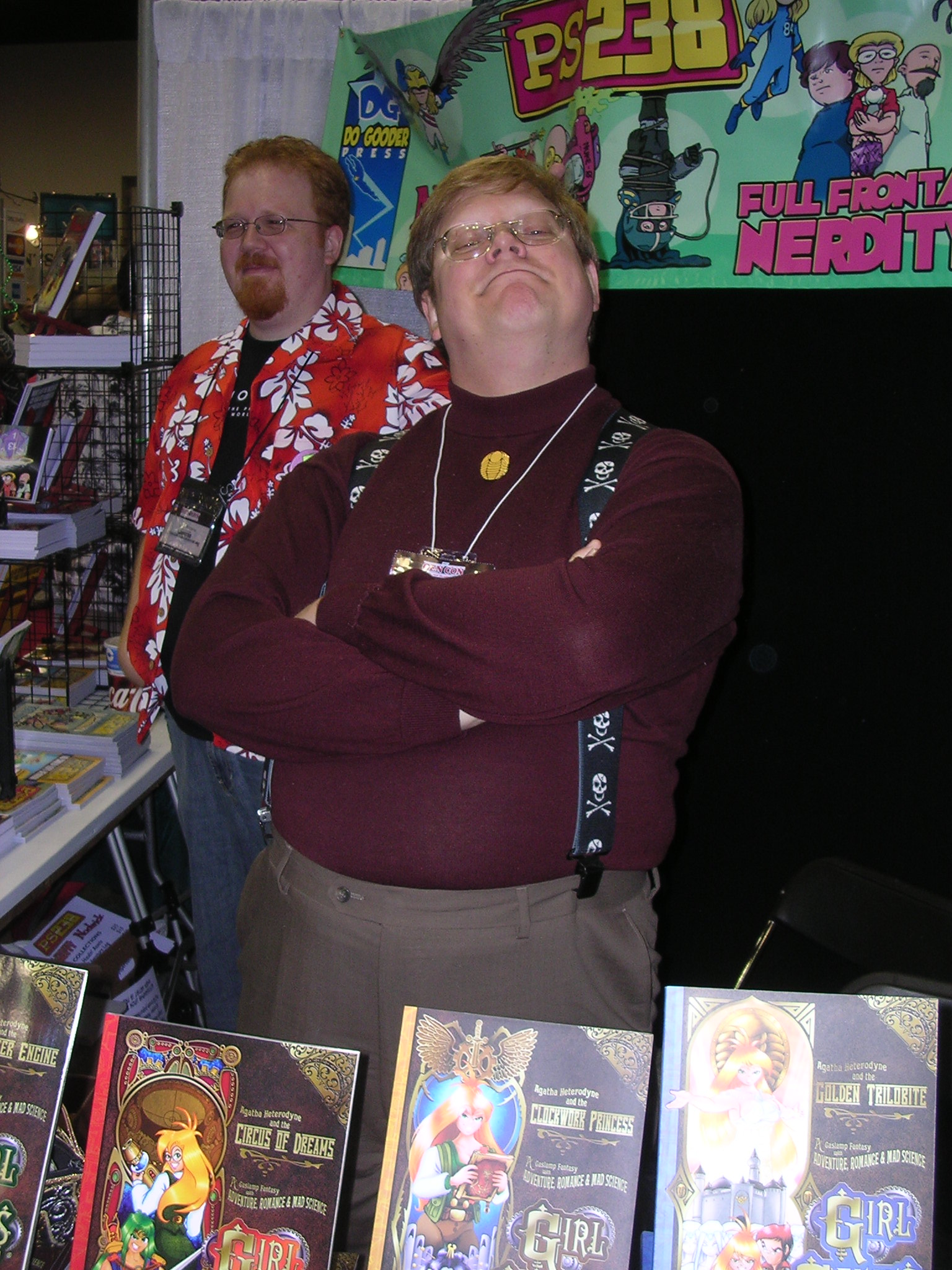 Photograph of Phil Foglio, cartoonist responsible for works including Buck Godot and Girl Genius. The photo was taken at Gen Con Indy 2007 on 2007-08-17. Foglio is standing in the "Studio Foglio" booth which he shared with Aaron Williams (booth 2326). Visible in the background to the left is Williams as well as a banner advertising William's comics. On the table in the foreground are collections of Girl Genius comics. The photograph was taken by and is copyright 2007 by the uploader, Alan De Smet. The photograph is multi-licensed under the Creative Commons Attribution 2.5 and 3.0 licenses; you can select the license of your choice. Per the license, credit must be given to "Alan De Smet".